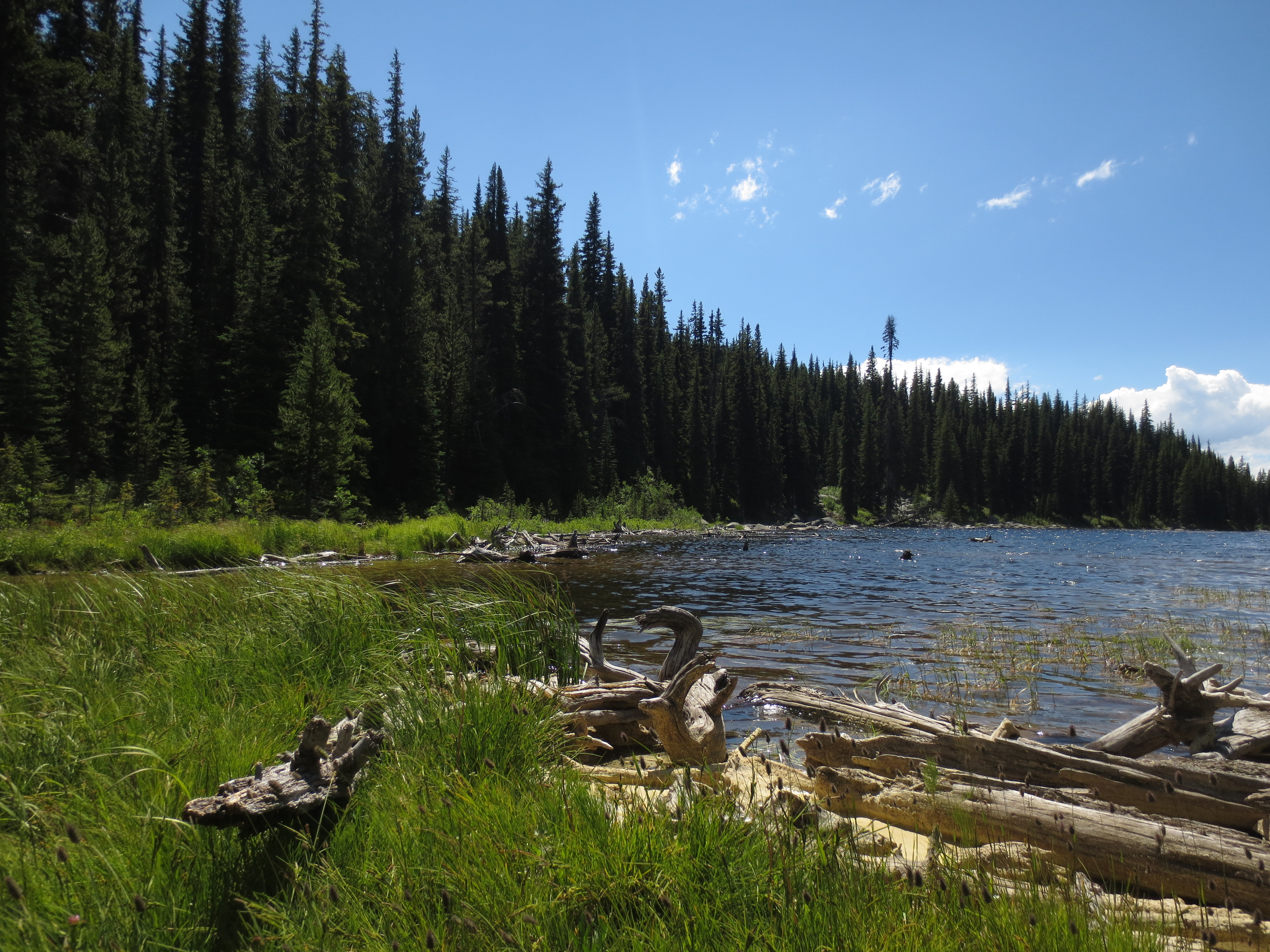 Peaceful Summer Afternoon overlooking Nickel Plate Lake